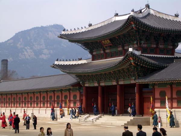 Heungryemun(gate). This building is middle gate of Gyeongbokgung(palace), building of Chosun dynasty. This gate was restored to former state in 2000.